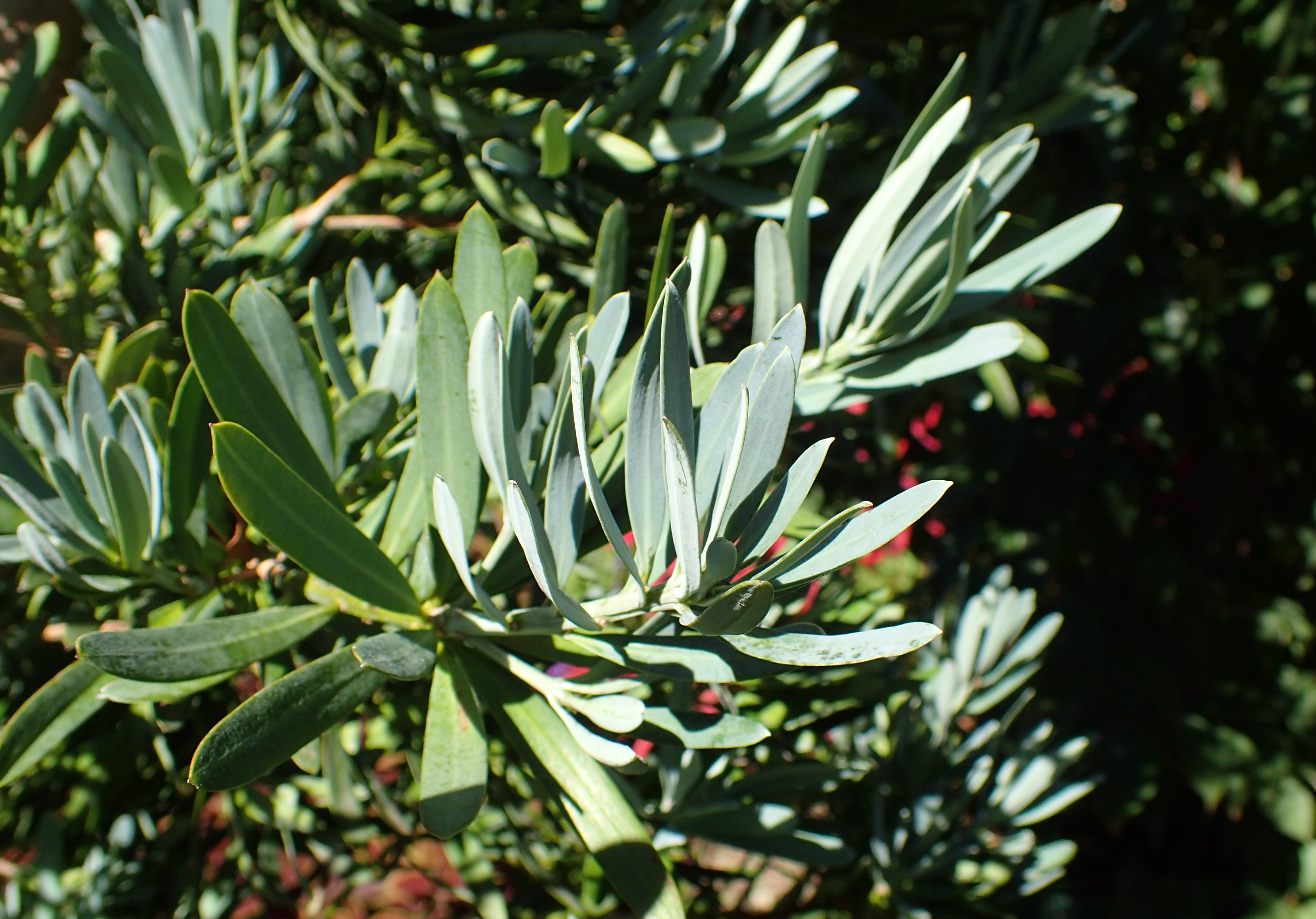 Podocarpus elongatus 'Monmal' in Olbrich Botanical Gardens